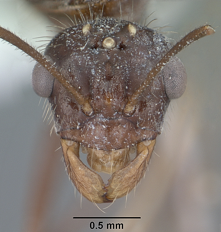 Head view of ant Myrmecocystus mendax specimen casent0102812.